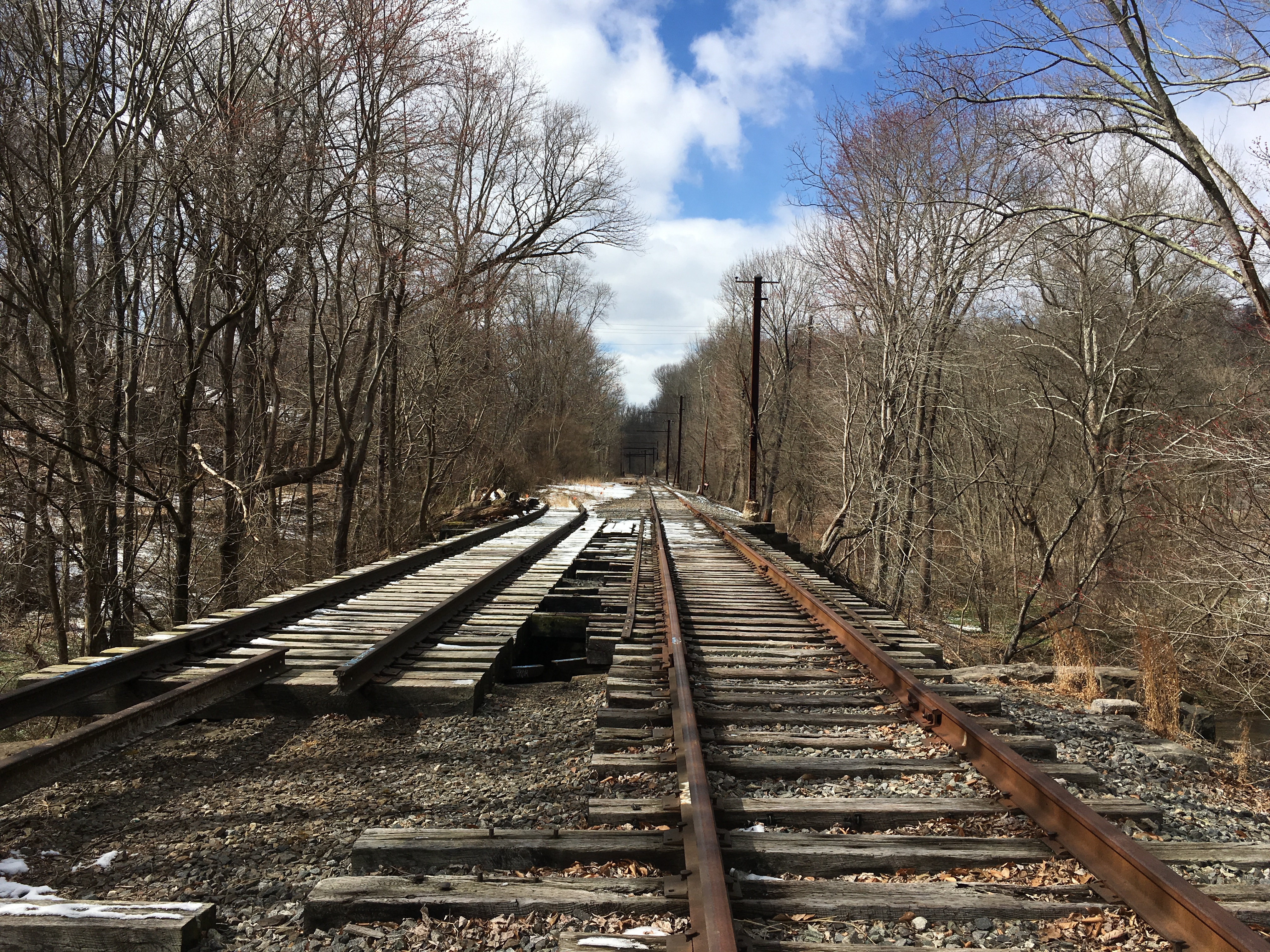 Looking down former Wawa station towards West Chester in 2017